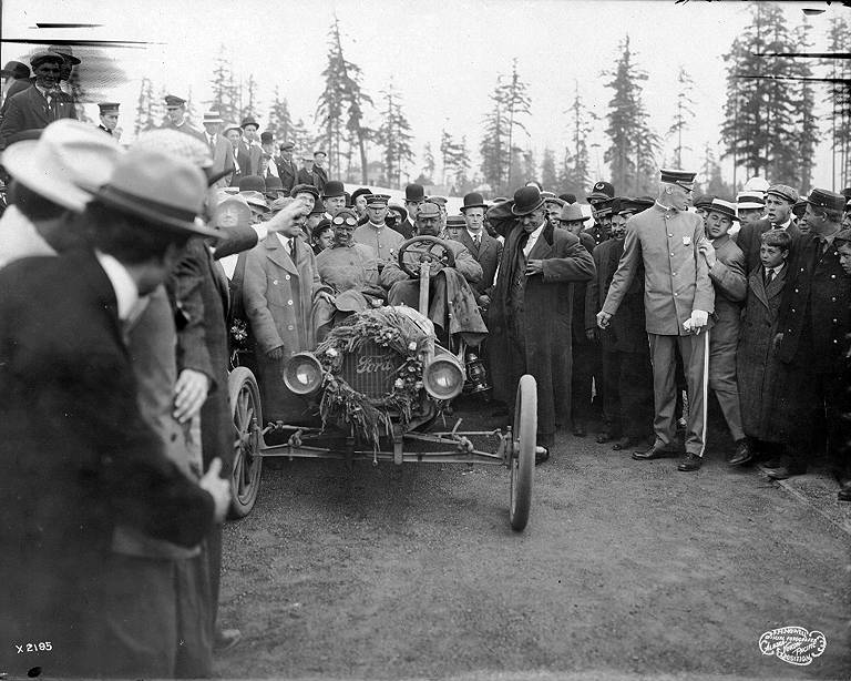 One of two cars entered by the Ford Motor Company in the contest for M. Robert Guggenheim trophy. Driven by Bert Scott and mechanic Frank Smith. Subjects (LCSH): Ford Model T automobile; Automobiles--Washington (State)--Seattle; Scott, Bert; Crowds--Washington (State)--Seattle; Alaska-Yukon-Pacific Exposition (1909 : Seattle, Wash.); Exhibitions--Washington (State)--Seattle